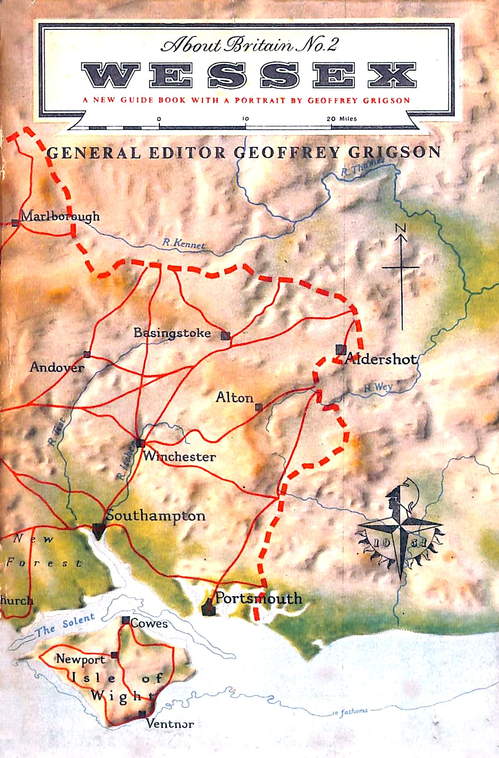 About Britain No. 2 Wessex. Map is expired Crown Copyright, rest of design de minims too simple for copyright protection